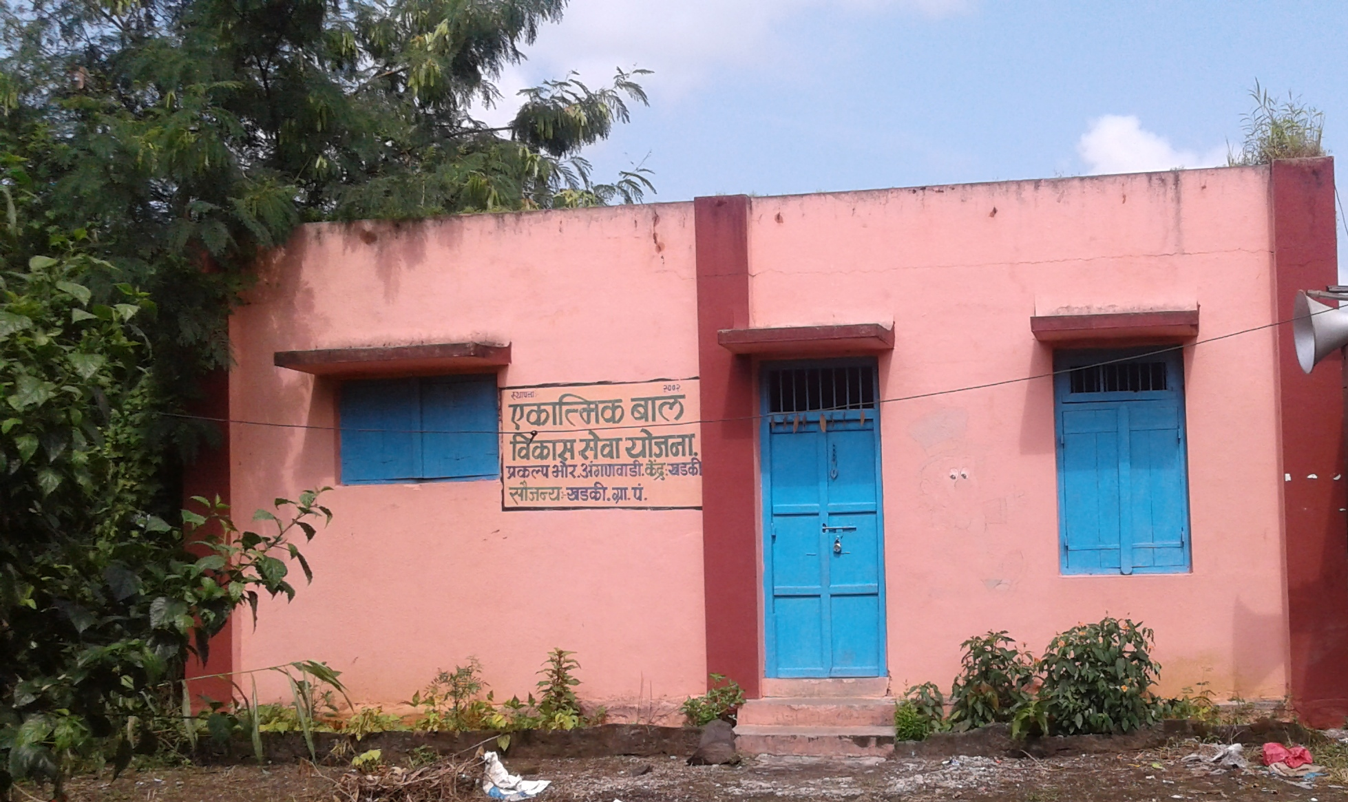 अंगणवाडी (खडकी)